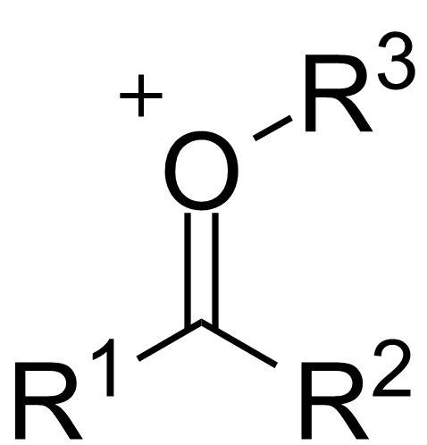 The general structure of an oxocarbenium ion